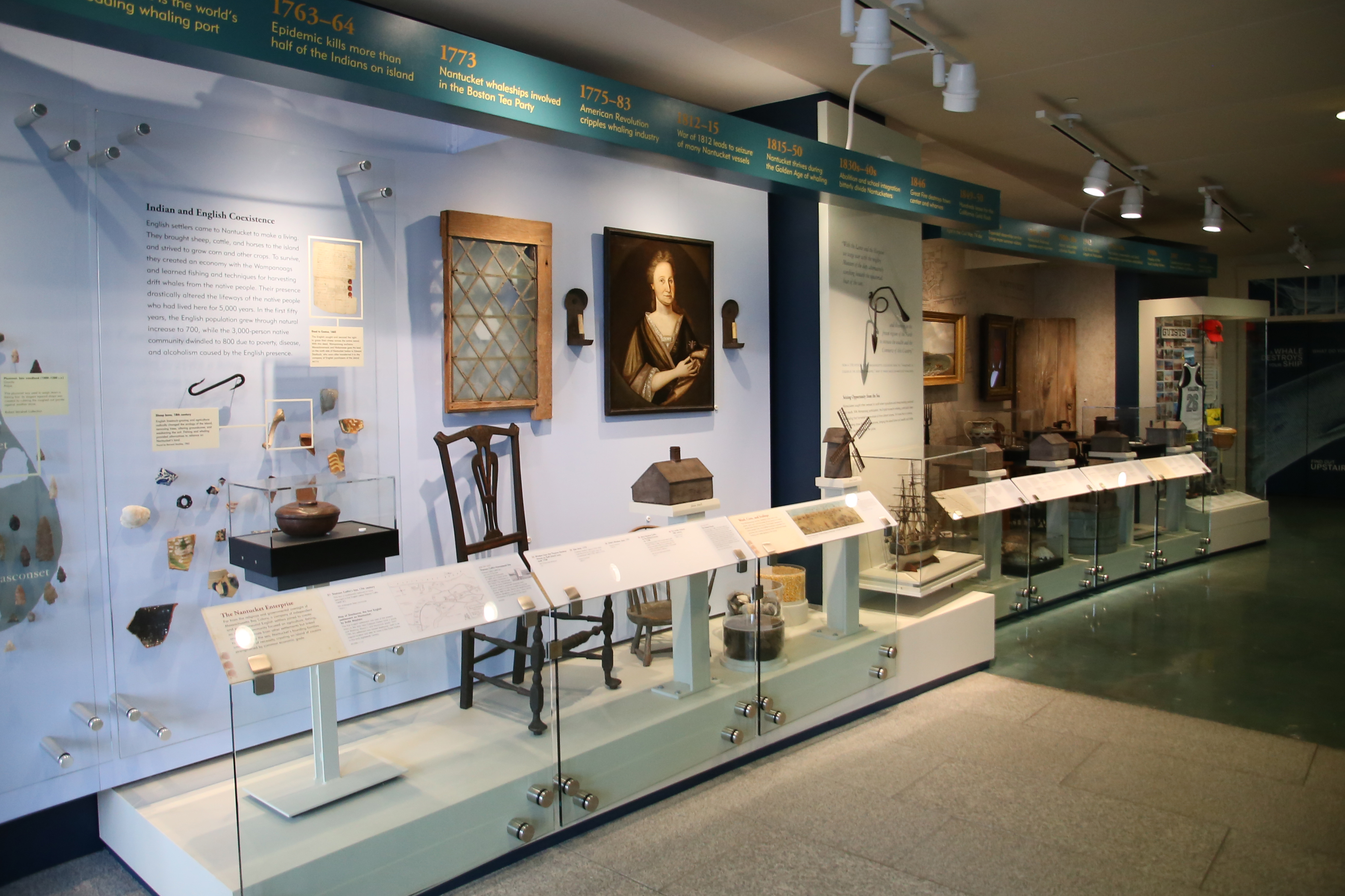 Timeline of Nantucket History in Whaling Museum